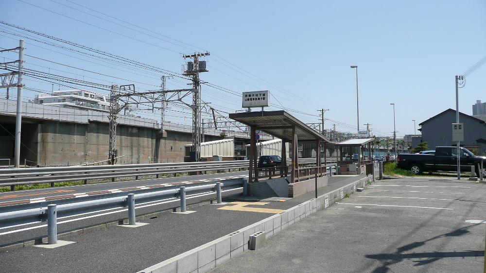 Sanyo Electric Railway,Nishi-Maiko Station south entrance. / 山陽電気鉄道西舞子駅南口。道路を挟んだ奥に見えるホームと線路が山陽電気鉄道本線である。